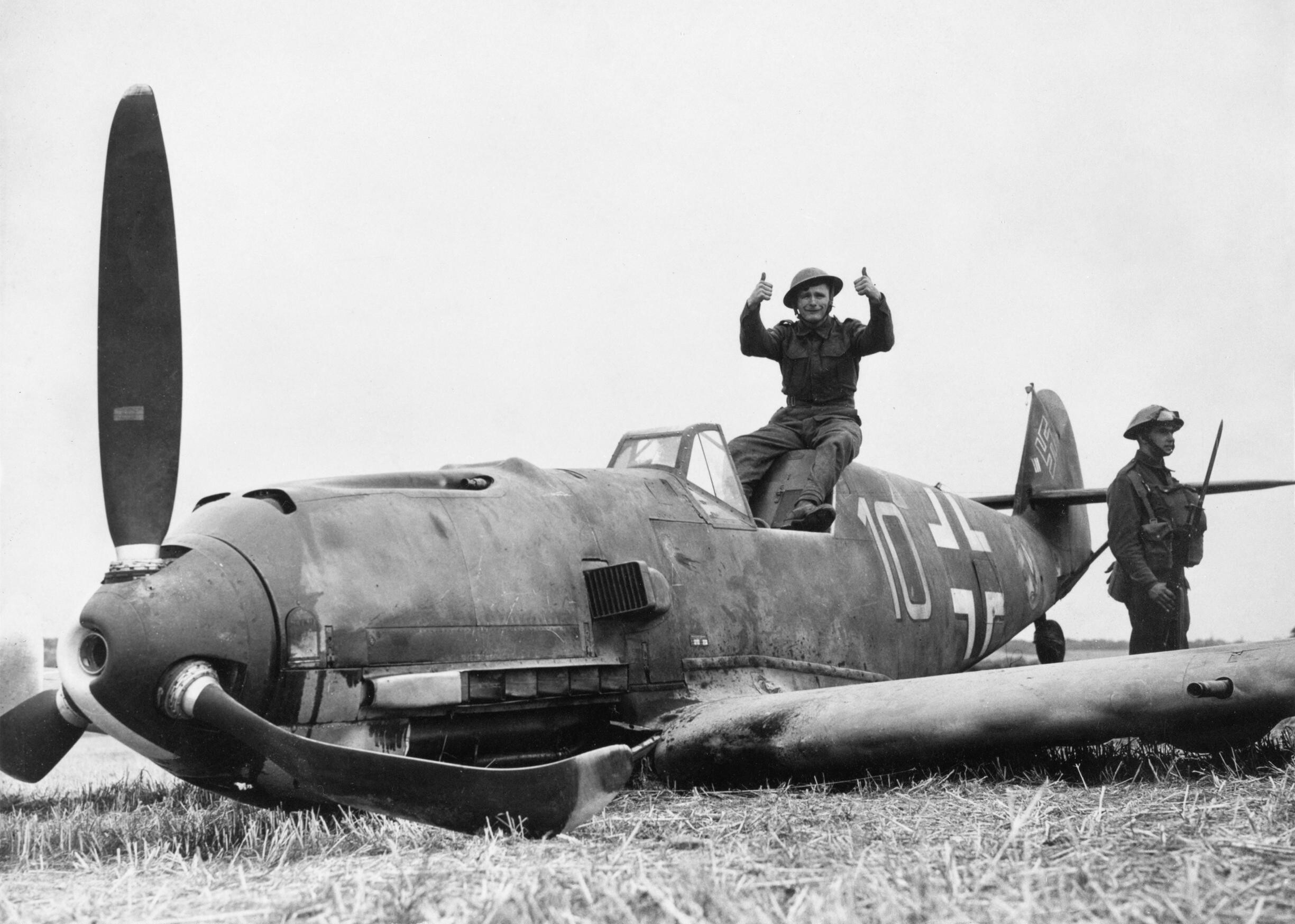 The Battle of Britain Soldiers pose with Messerschmitt Bf 109E-4 (W.Nr. 5587) 'Yellow 10' of 6./JG 51 'Molders', which crash-landed at East Langdon in Kent, 24 August 1940. The pilot, Oberfeldwebel Beeck, was captured unhurt.